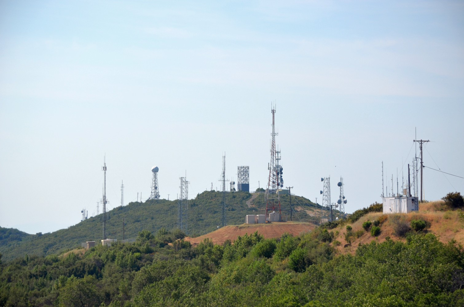 Dopler Radar weather tower on top of Mt. Vaca in Solano County, California